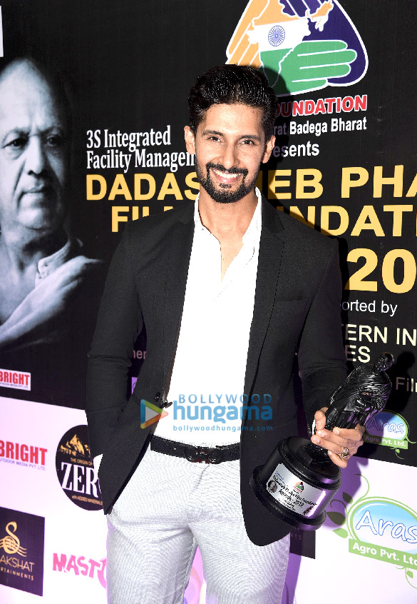 Ravi Dubey graces Dadasaheb Phalke Film Foundation Awards 2019